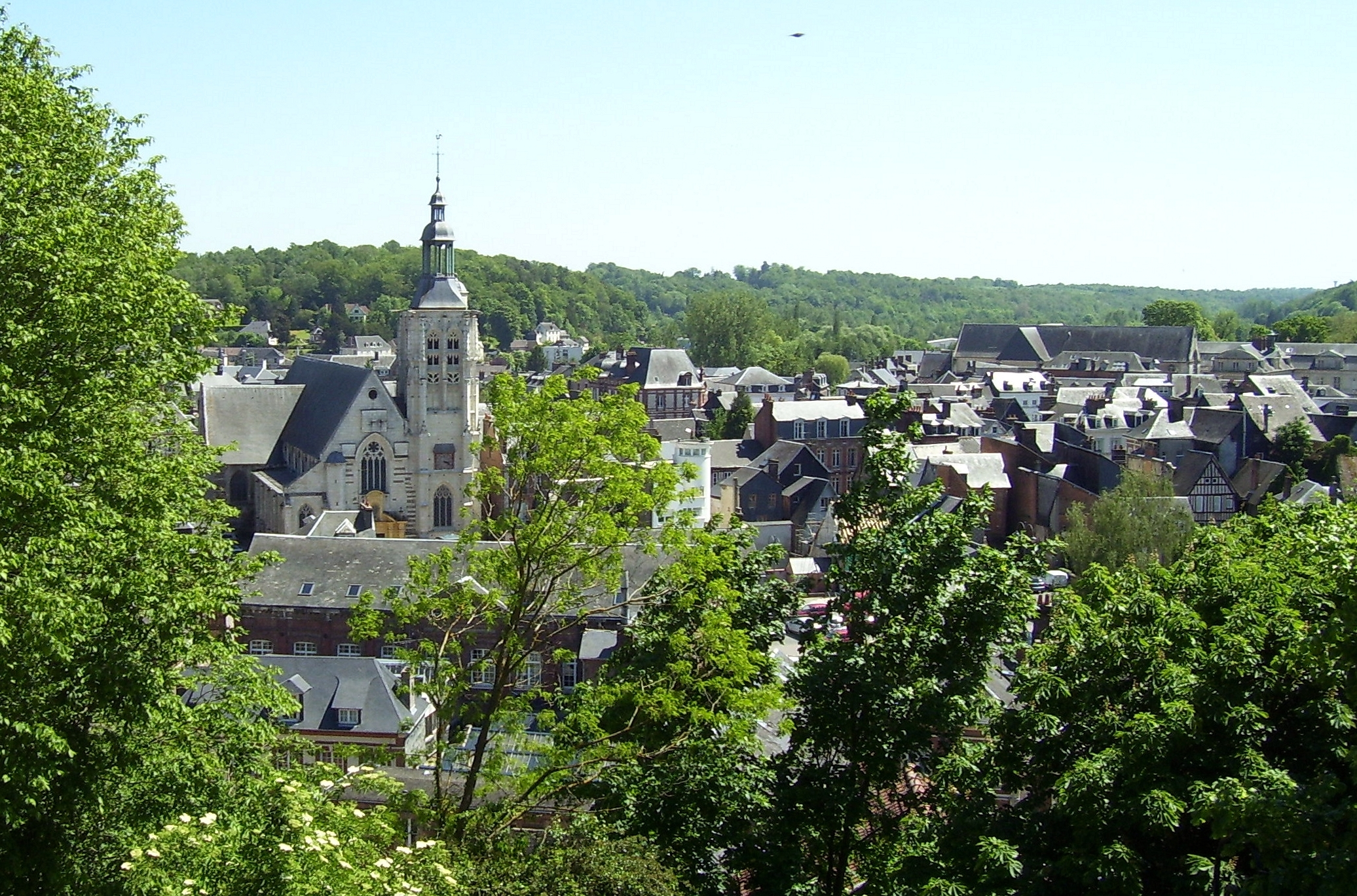 View of Bernay in the Eure département in France.